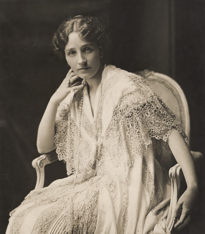 Portrait of Ethel Beatty, Countess Beatty (née Field). Chlorobromide print